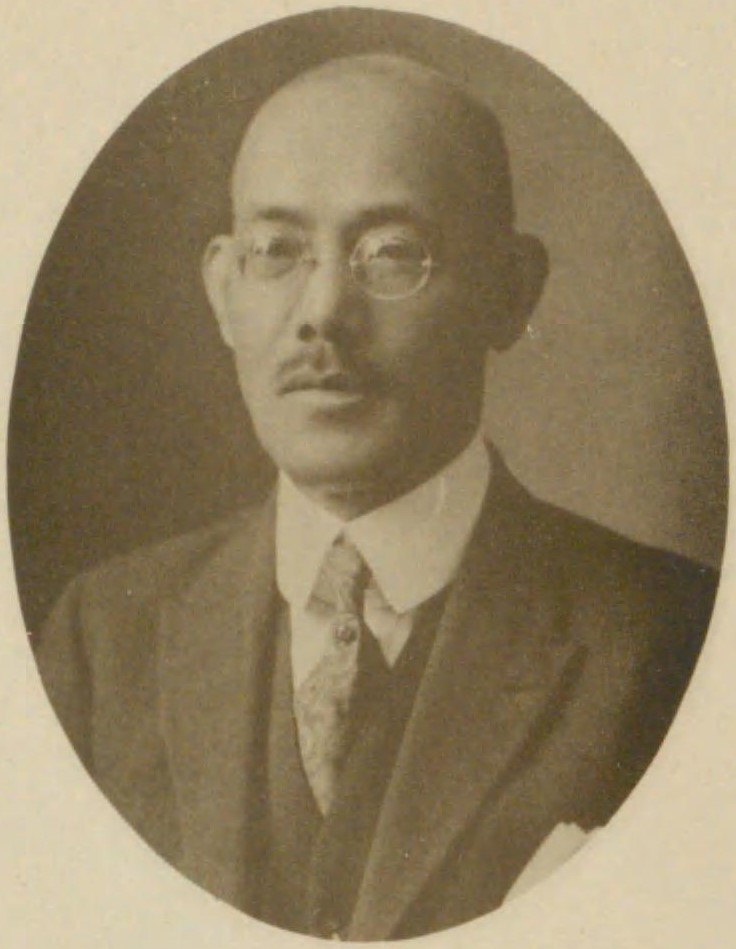 Abe Kunie, a Japanese railway mechanical engineer.